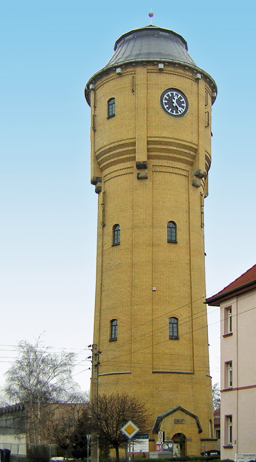 water tower at Bielastraße in Böhlitz-Ehrenberg, today a district of Leipzig, Saxony, Germany; built in 1912, protected monument